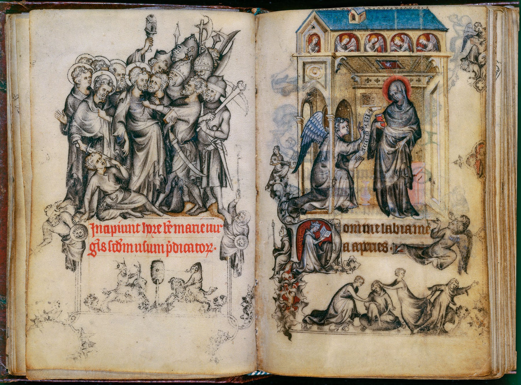 Jean Pucelle. Hours of Jeanne d'Evreux. 1325-28, Metropolitan Museum, New-York